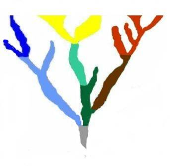 Different colors represent different groups delineated within the coral diagram